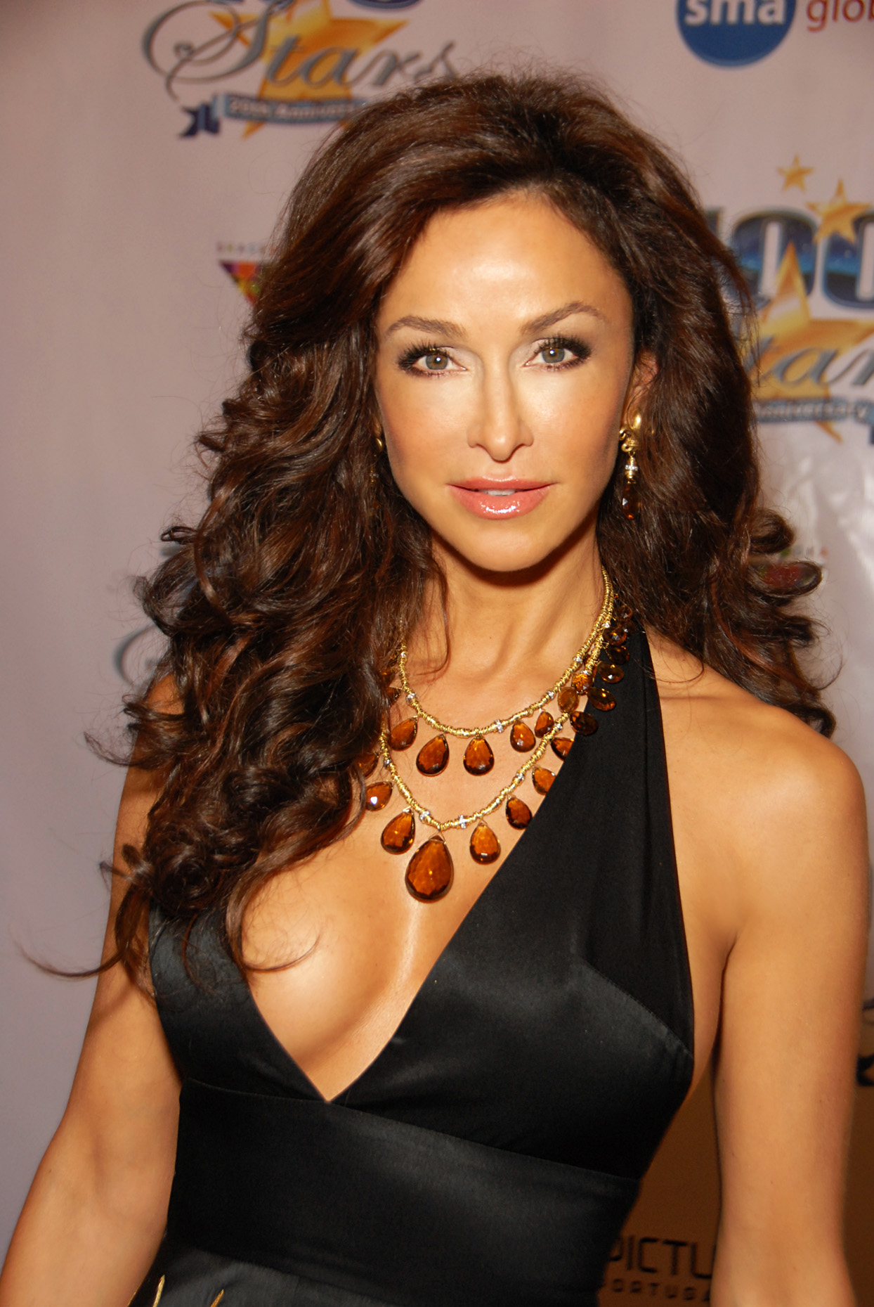 Sofia Milos attending the "Night of 100 Stars" for the 82nd Academy Awards viewing party at the Beverly Hills Hotel, Beverly Hills, CA on March 7, 2010 - Photo by Glenn Francis of